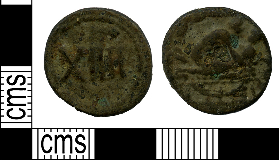 A Roman bronze spintria or "brothel token" found at Putney, London, with the Roman numeral "XIIII" on one side, and a pair of naked lovers on the other.